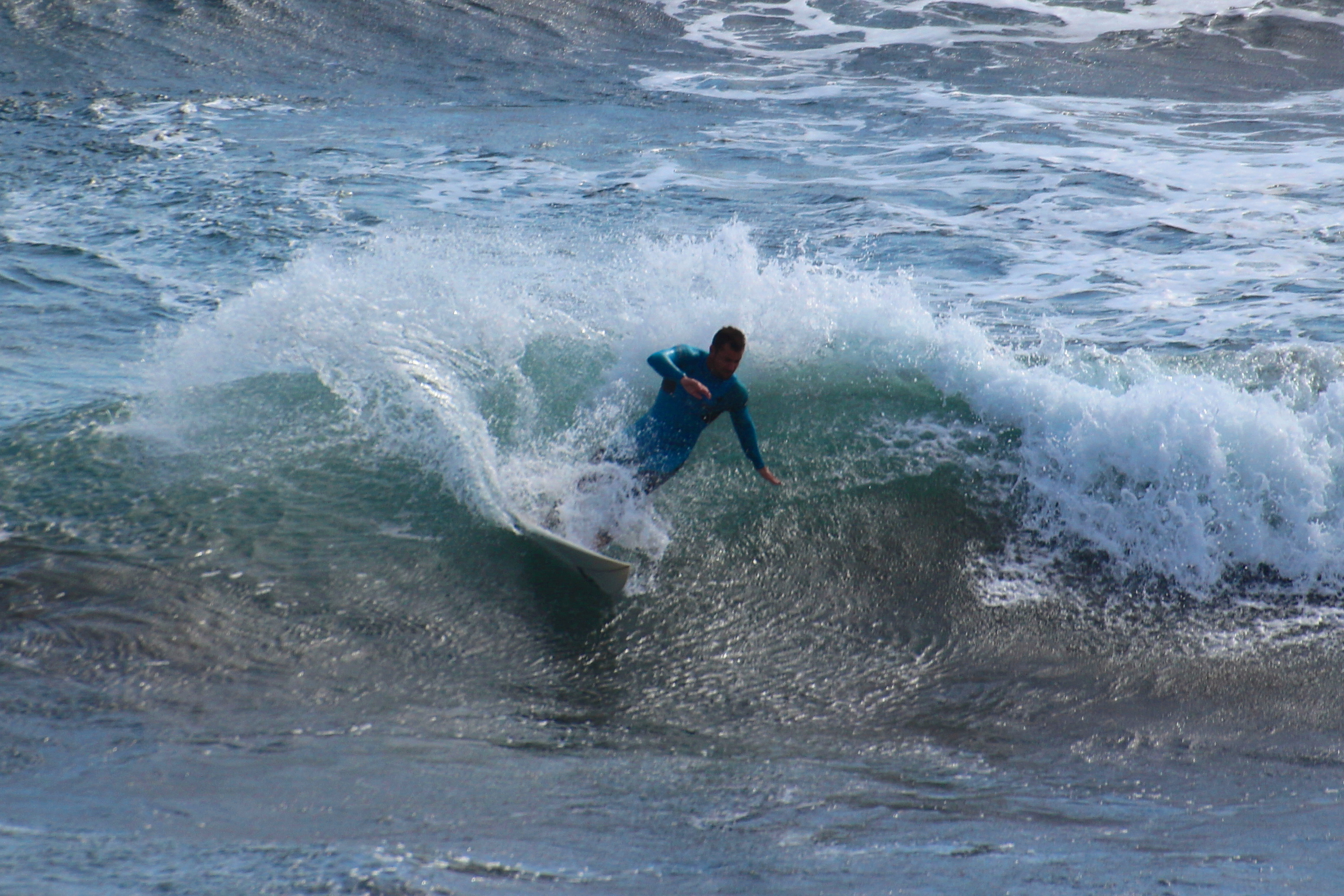 surfing wave 2